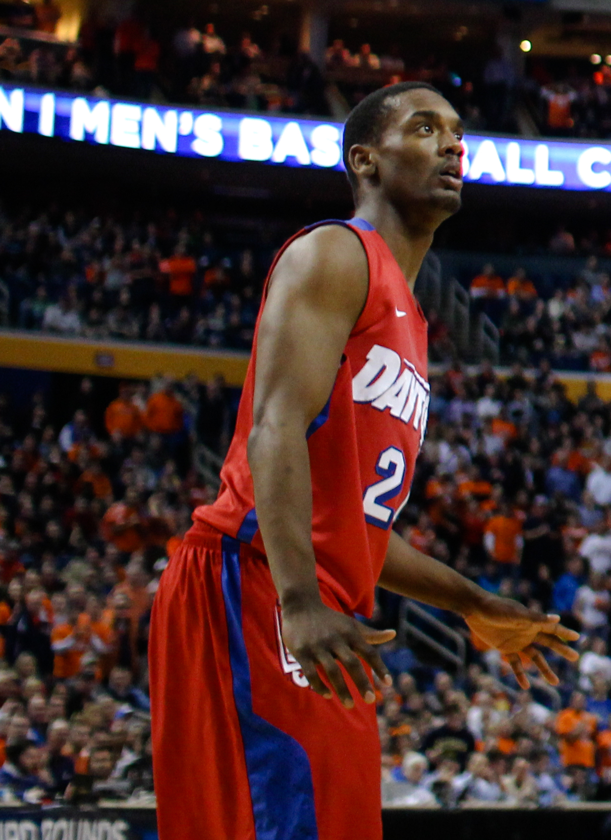 Dayton upsets Syracuse 55-53